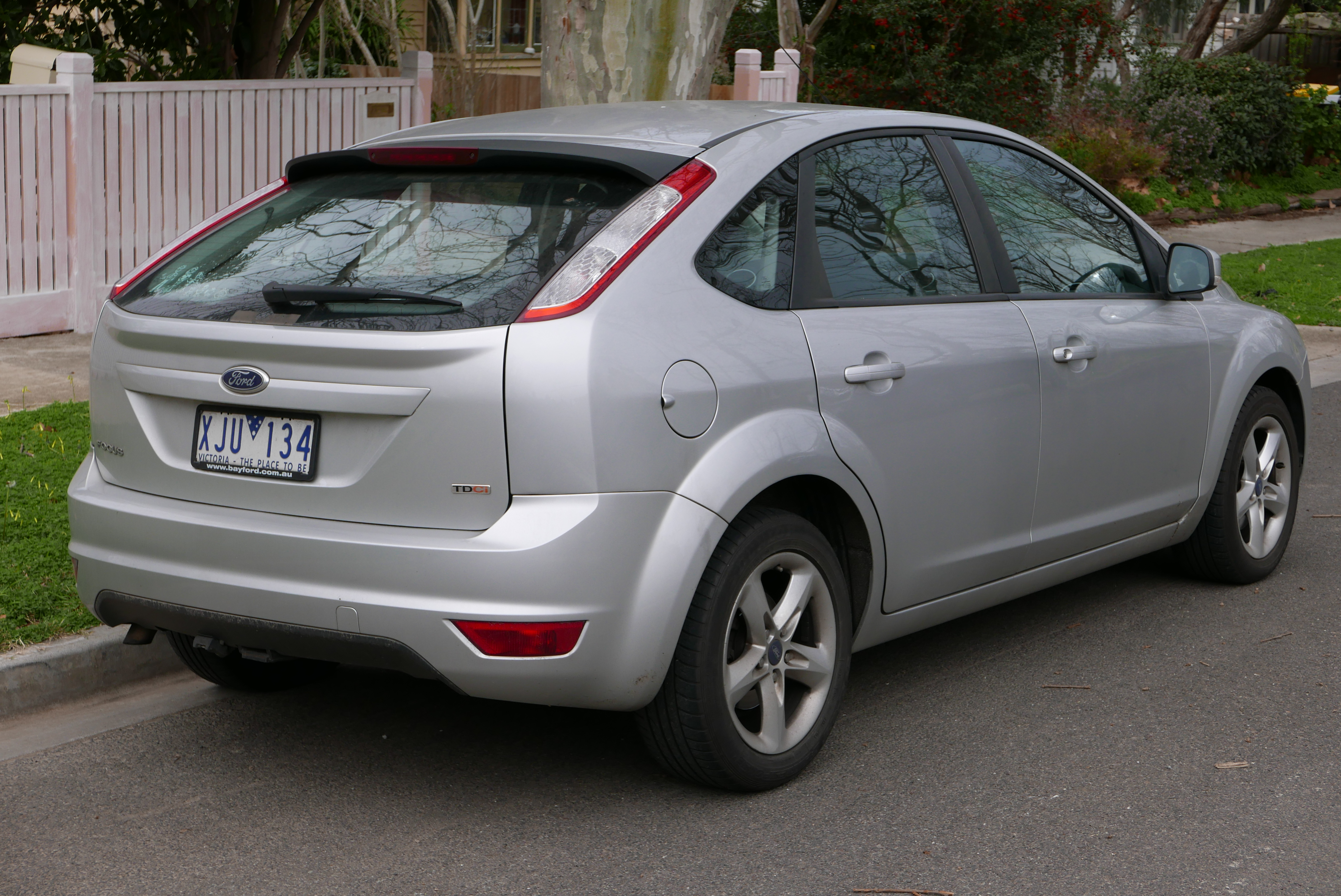 2009 Ford Focus (LV) TDCi 5-door hatchback. Photographed in Alphington, Victoria, Australia. Vehicle registration enquiry results Jurisdiction Victoria Registration XJU134 Chassis code AFAUXXMJDU8S03133 Engine code D4204T361945 Compliance date 2009-07 Year of manufacture 2009